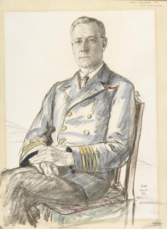 Captain Arthur Kipling Waistell, Cb image: a three quarter length portrait of Captain Arthur Waistell in naval uniform, seated with his hands crossed on his lap.